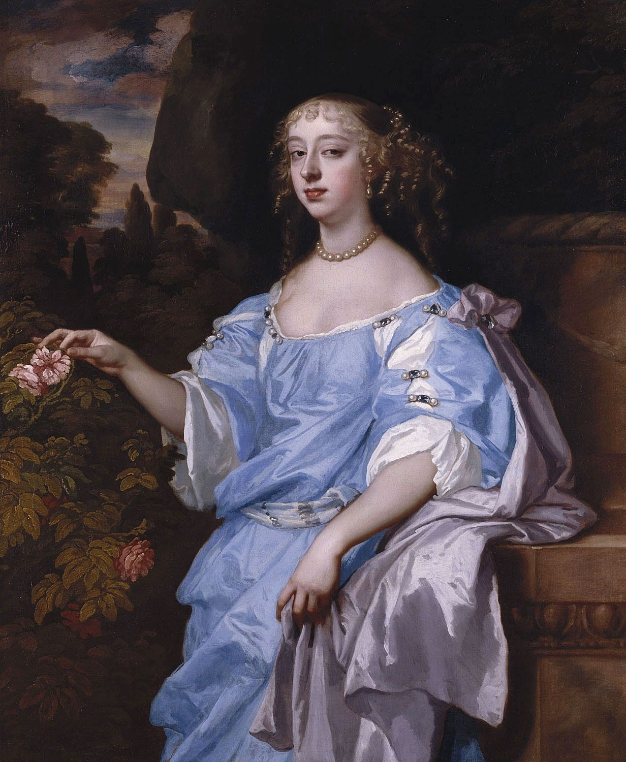 Henrietta Boyle, Countess of Rochester, sister-in-law of Anne Hyde, Duchess of York